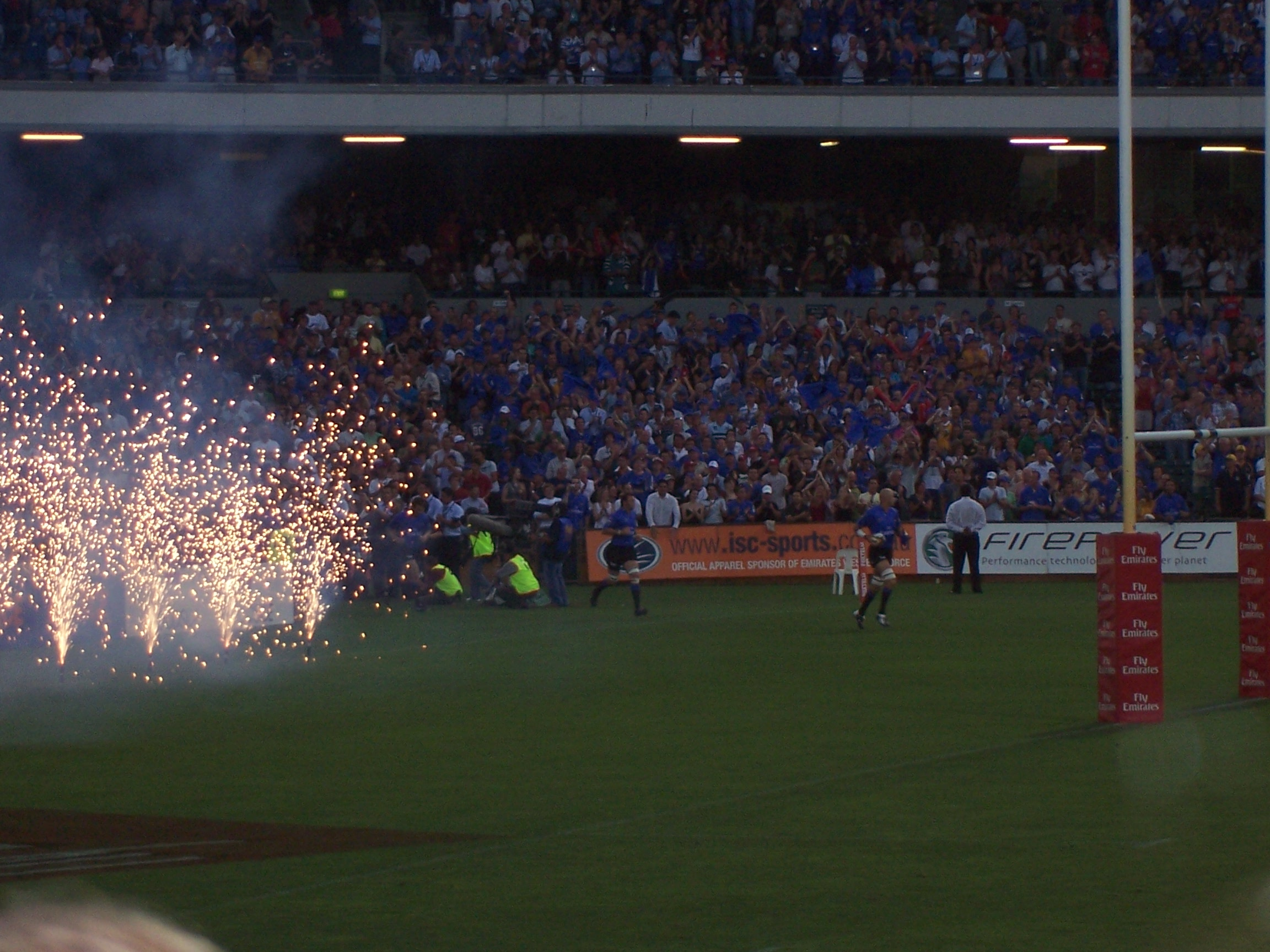 Summary The Western Force running on to the field in their first game.